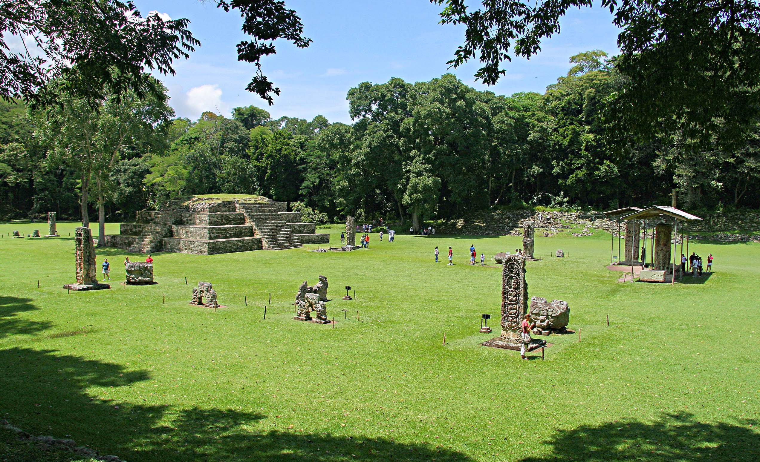 A view of the Great Plaza of Copan